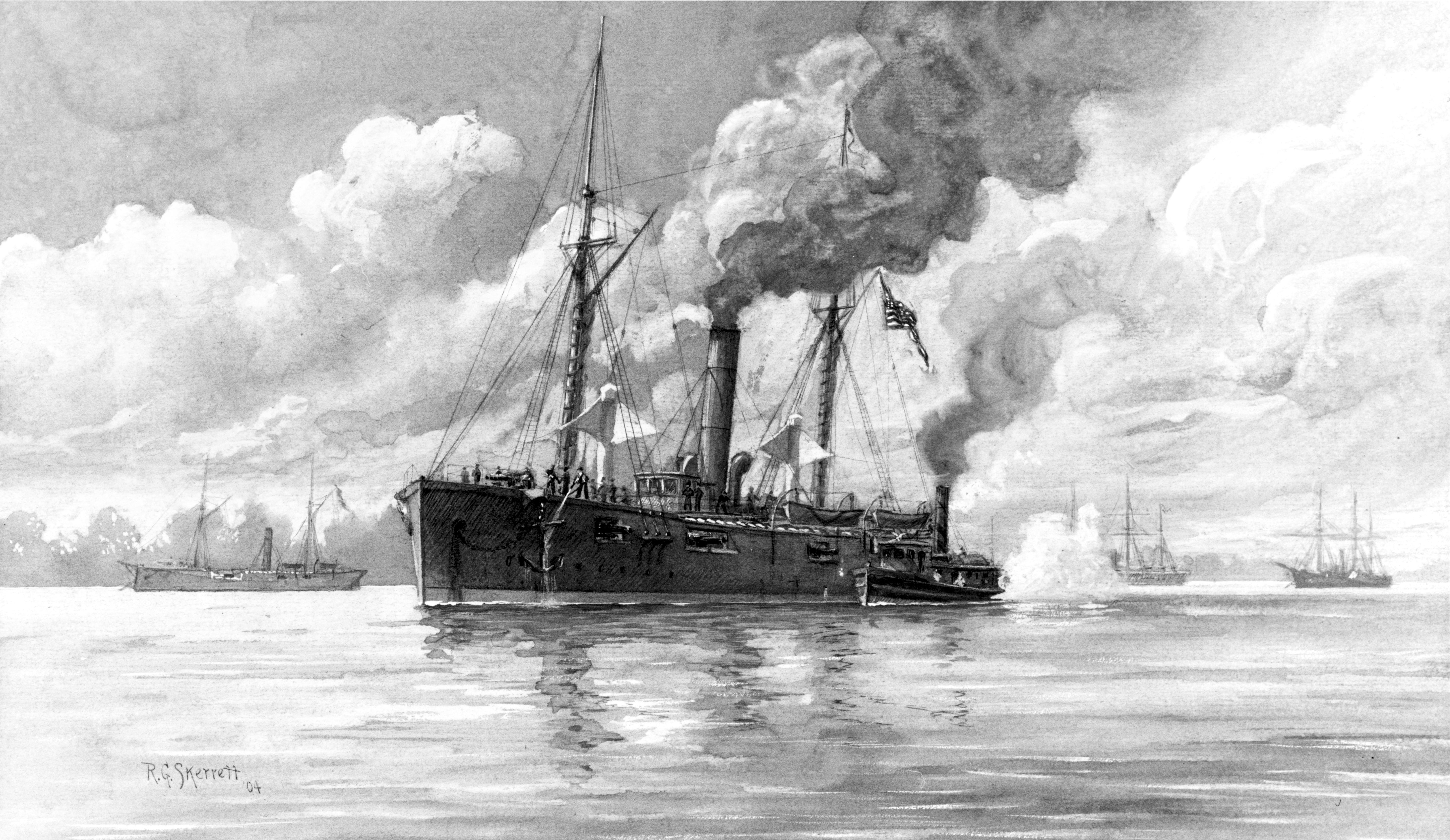 From U.S. Navy public domain Photo #: NH 57822 USS Varuna (1862-1862) Sepia wash drawing by R.G. Skerrett, 1904. Courtesy of the Navy Art Collection, Washington, DC. U.S. Naval Historical Center Photograph.